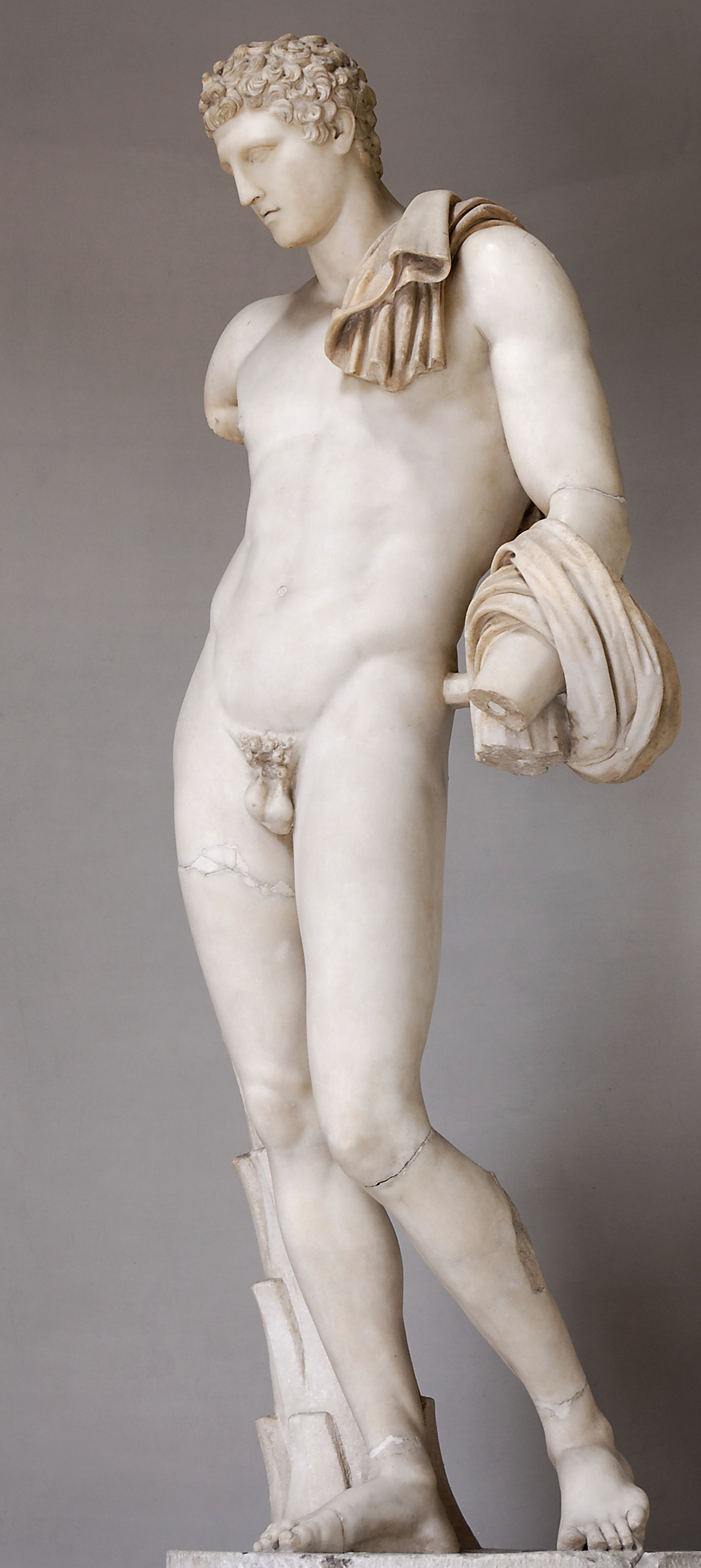 So-called “Belvedere Antinous”, actually a statue of Hermes of the Andros-Farnese type. Marble, Roman artwork, Hadrian's era, copy or a Greek bronze original of the 4th century BC. Found near the castle Sant'Angelo.